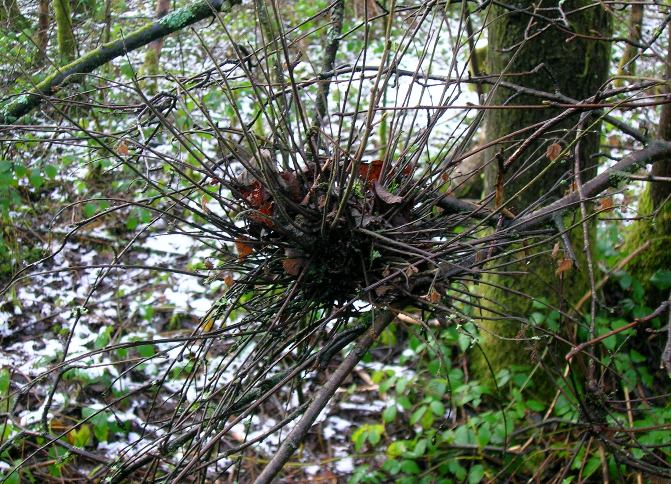 A Witch's Broom gall on a Birch Tree, Spier's School, Beith, North Ayrshire, Scotland.